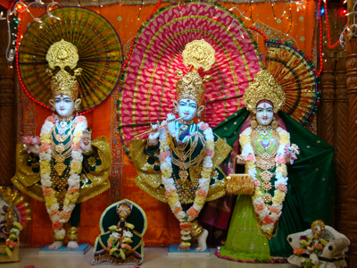 Murti's at Los Angeles